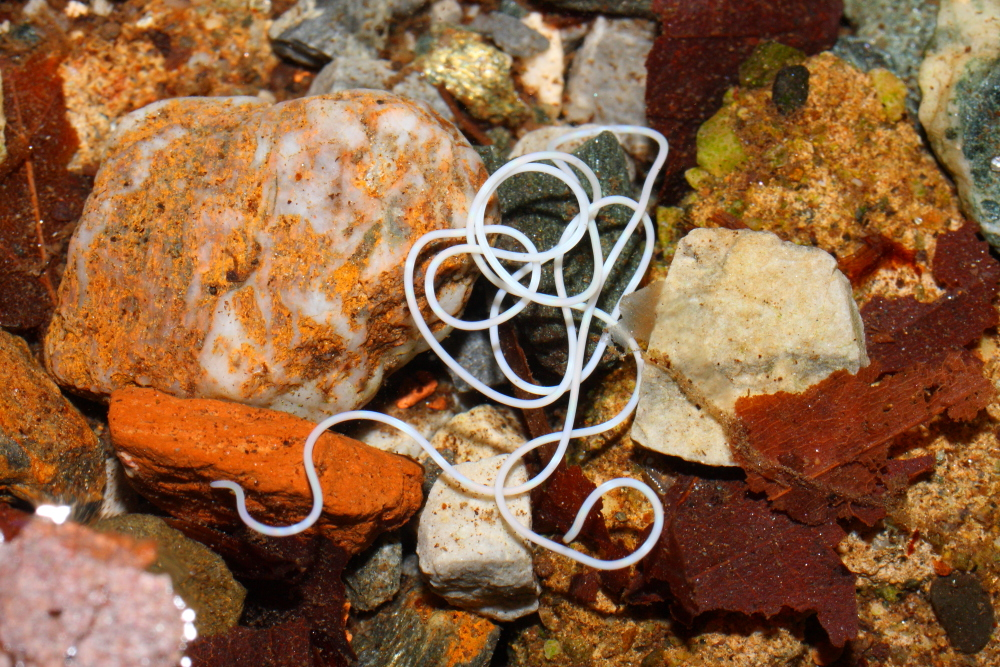 Gordiidae in a cold spring in Carinthia, Austria